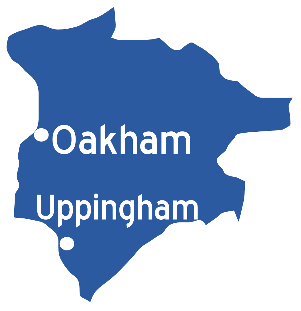 Map of Rutland Source: :Image:UK map.svg map: England Map of: England